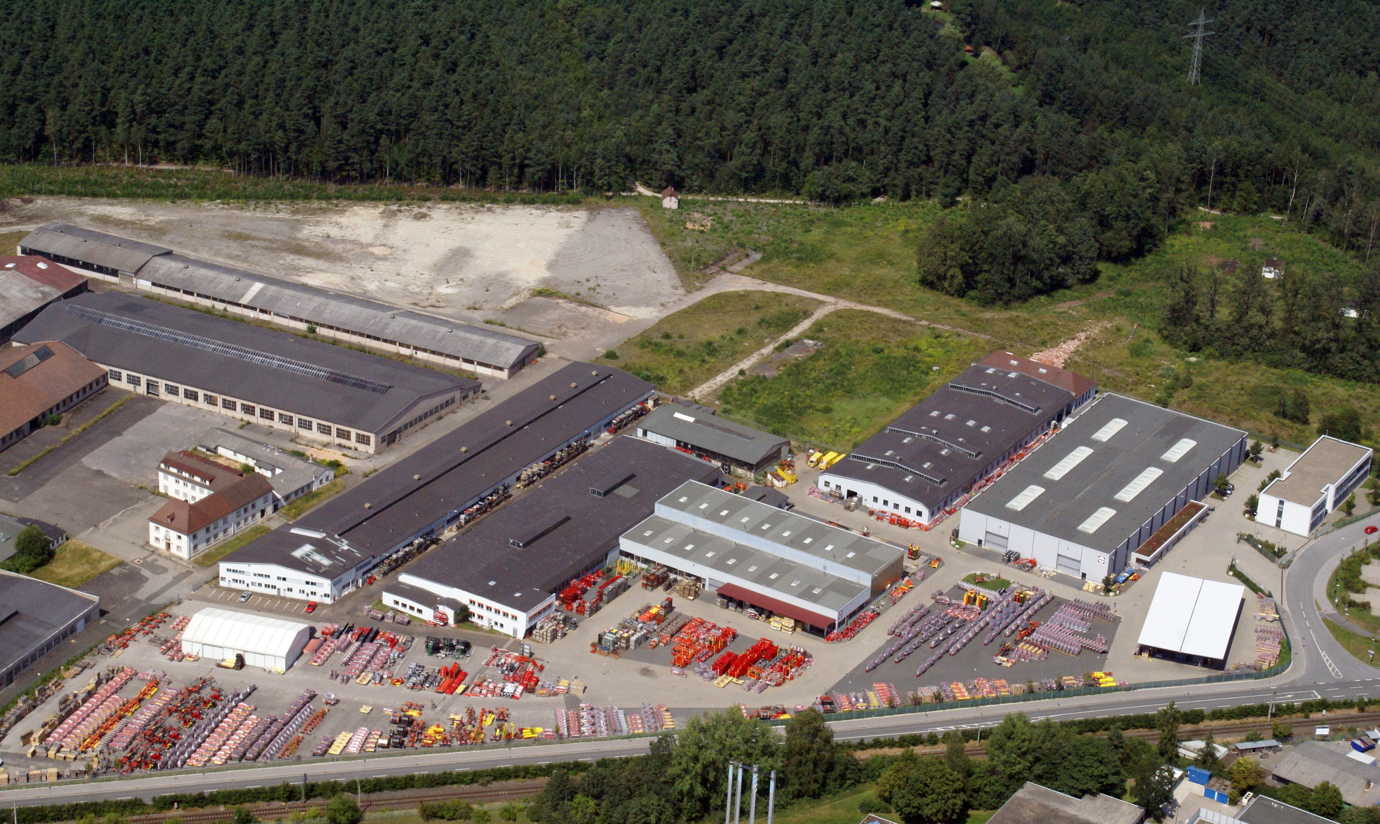 A picture from 2010 of Fella-Werke GmbH from the air.